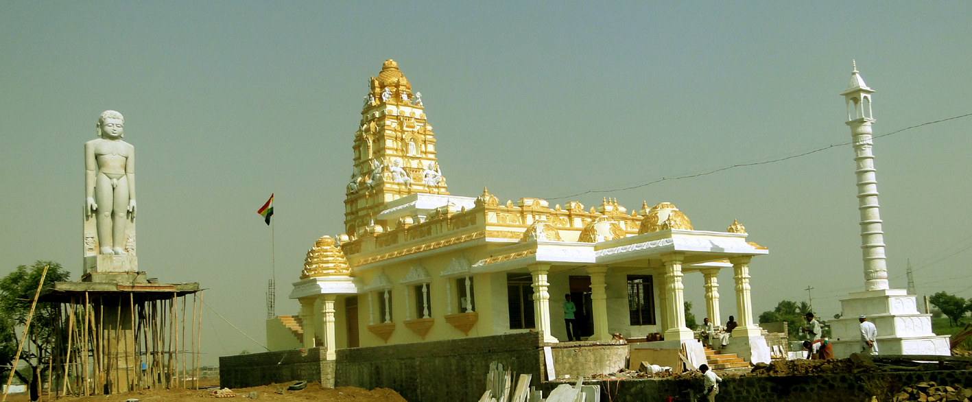 This is newly created temple at Indapur in Pune district ( Maharashtra, India). Shri 1008 Munisuvratnath Bhagwan 27 feet granite Statue has been created first time in India